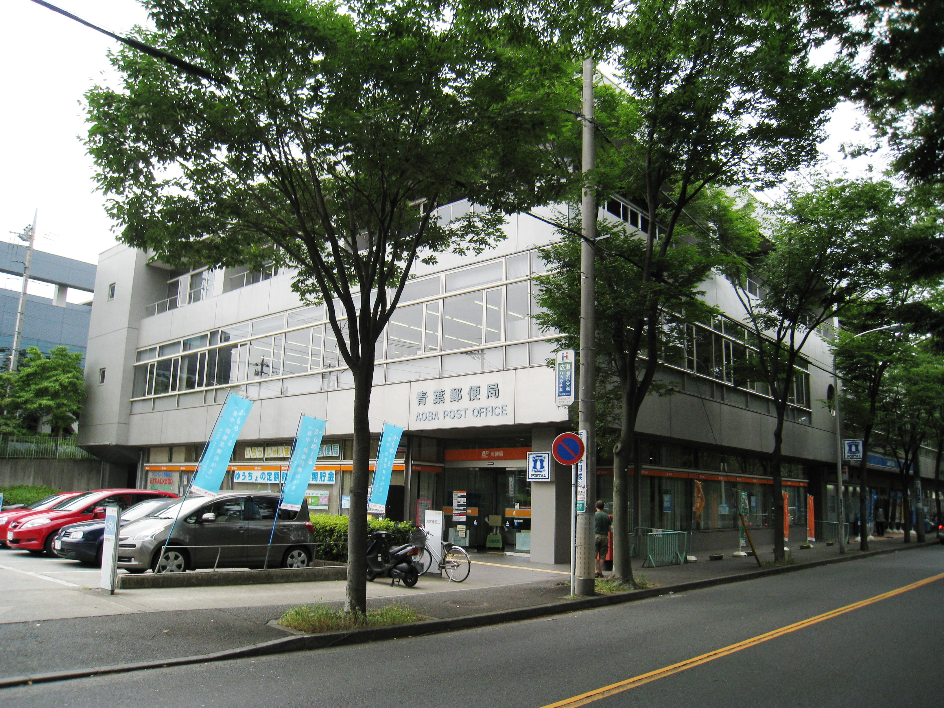 Aoba postoffice.Aoba-ward, Yokohama-city, japan